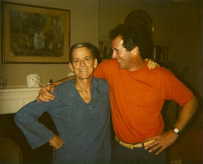 James Merrill (1926-1995) and his partner Peter Hooten taken in Merrill's New York City apartment, 164 East 72 Street, 2 June 1992